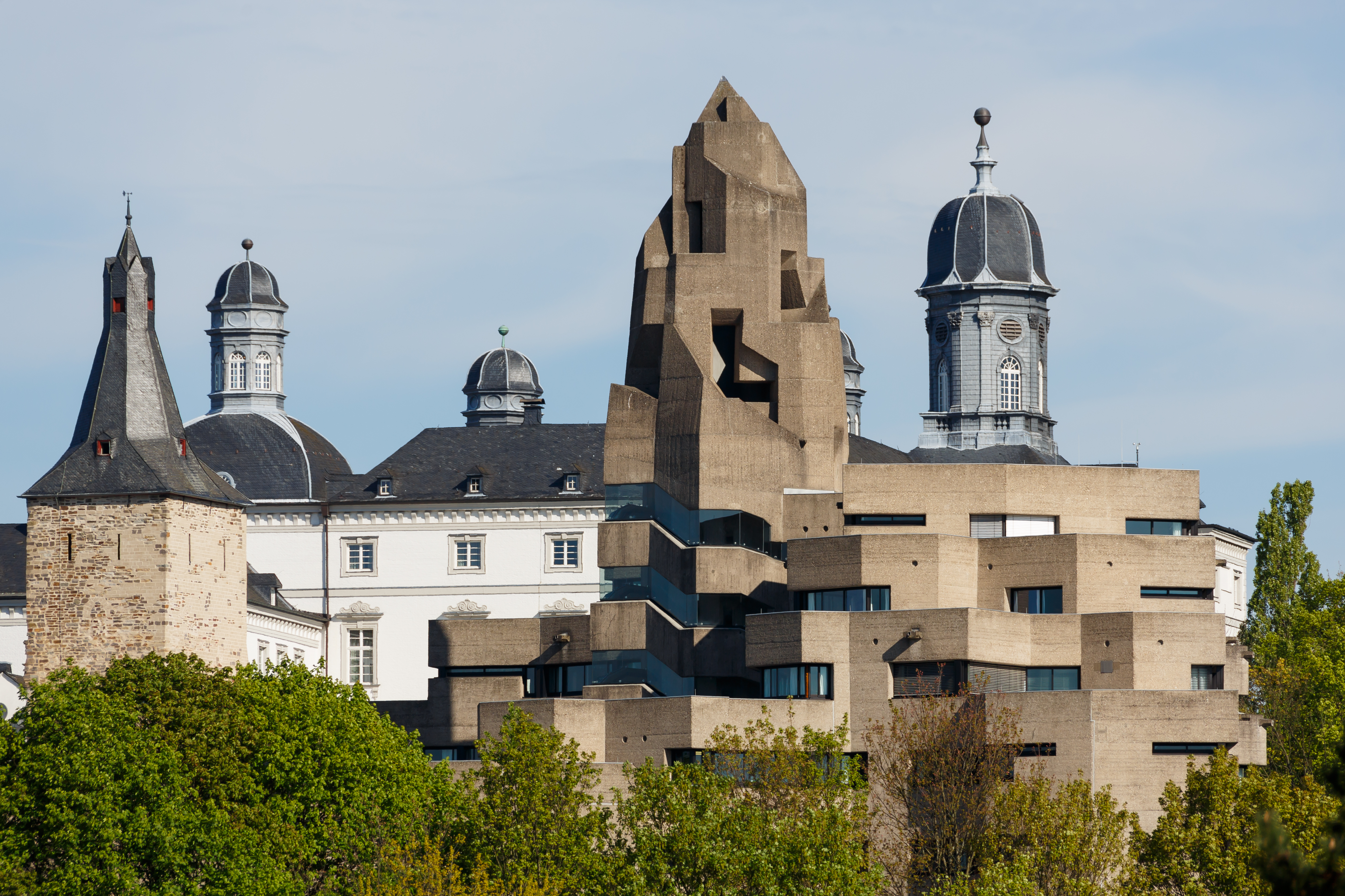 Bensberg, Germany: New Cityhall and old castle Bensberg, an architectural blending, designed by Architect Prof. Gottfried Böhm